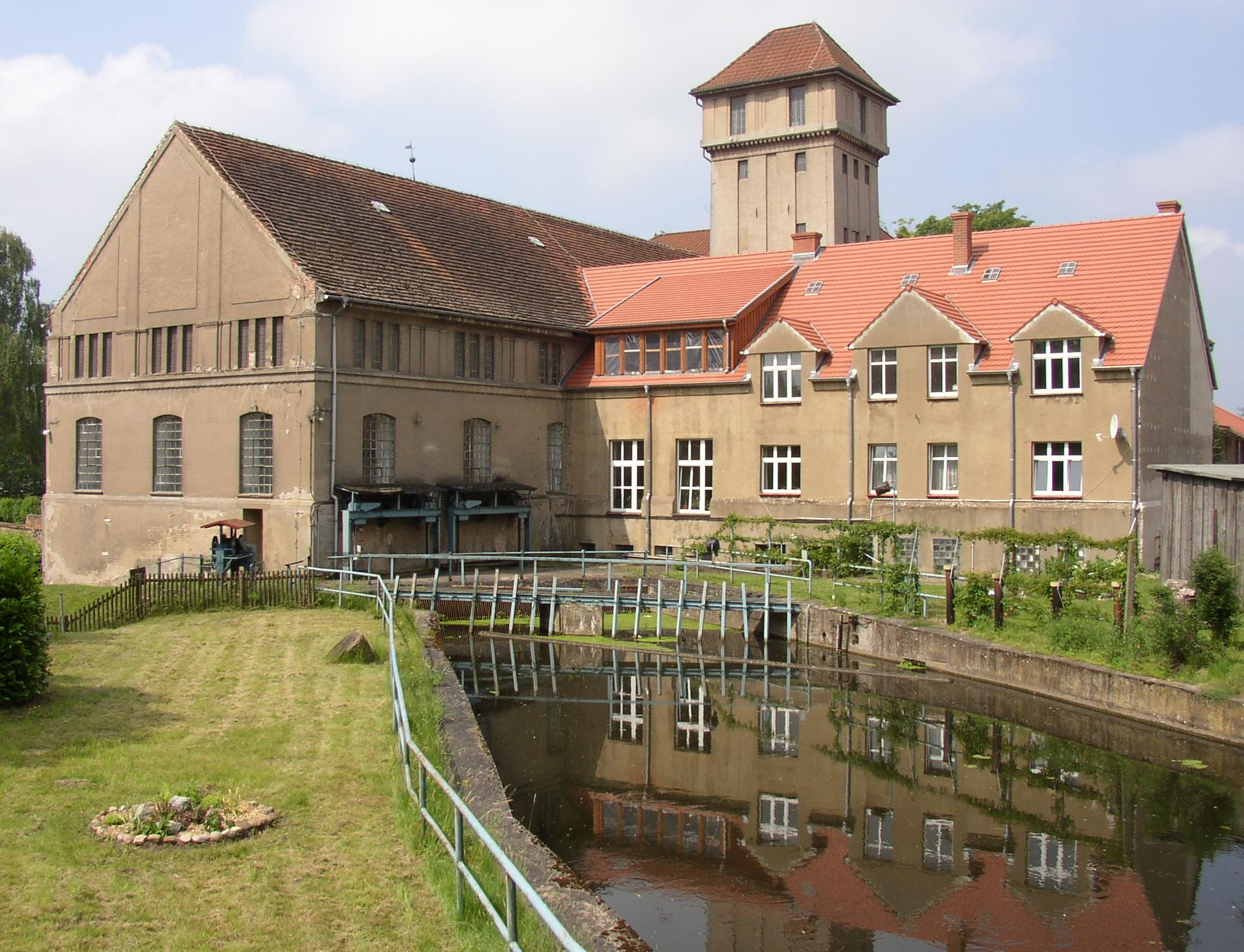 Power station in Neustadt-Glewe in Mecklenburg-Western Pomerania, Germany